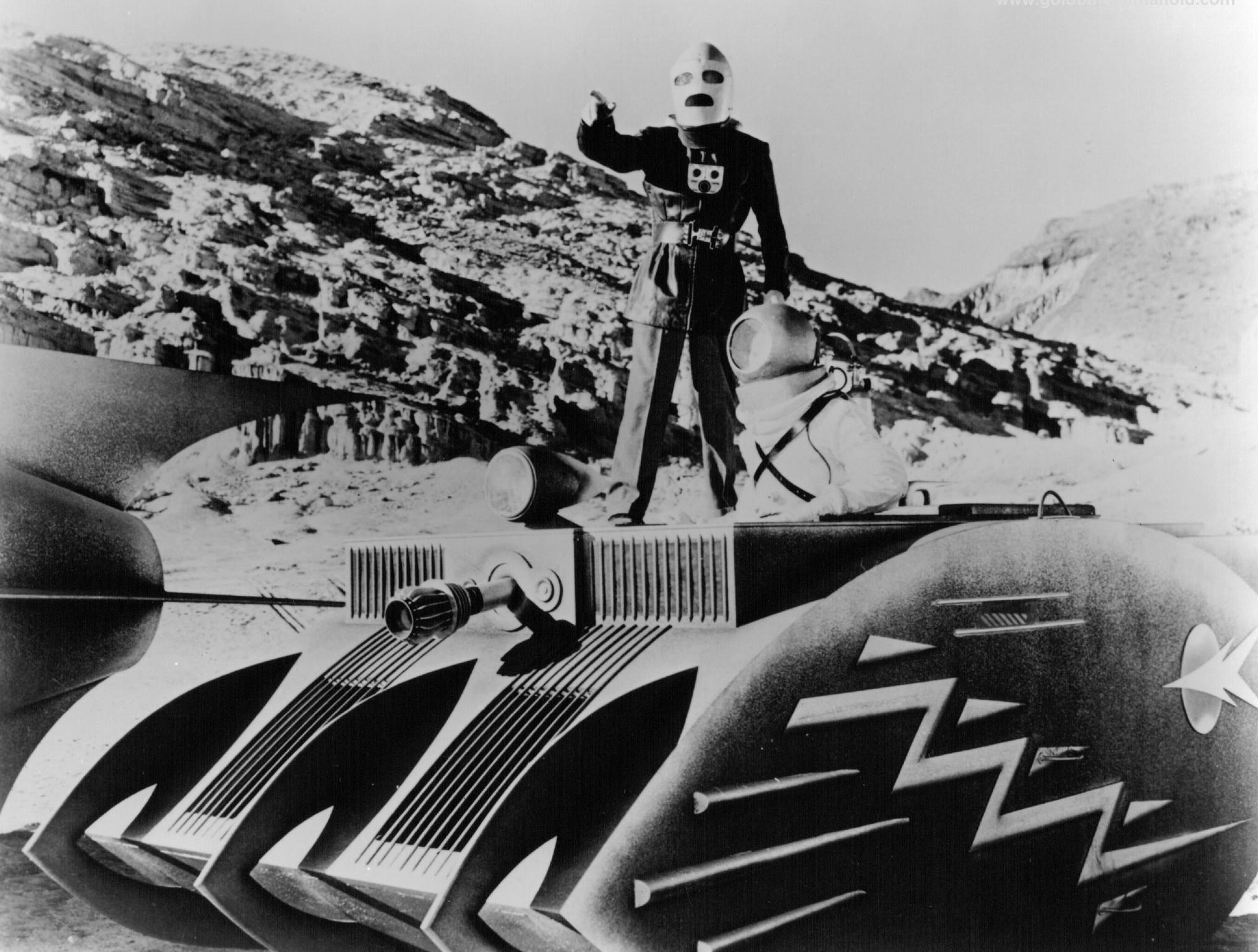 Publicity still from RADAR MEN FROM THE MOON, showing the spaceship (left) and moon tank. Note: The Internet Archive lists this film as Public Domain, so I have changed the licence tags. Evidence